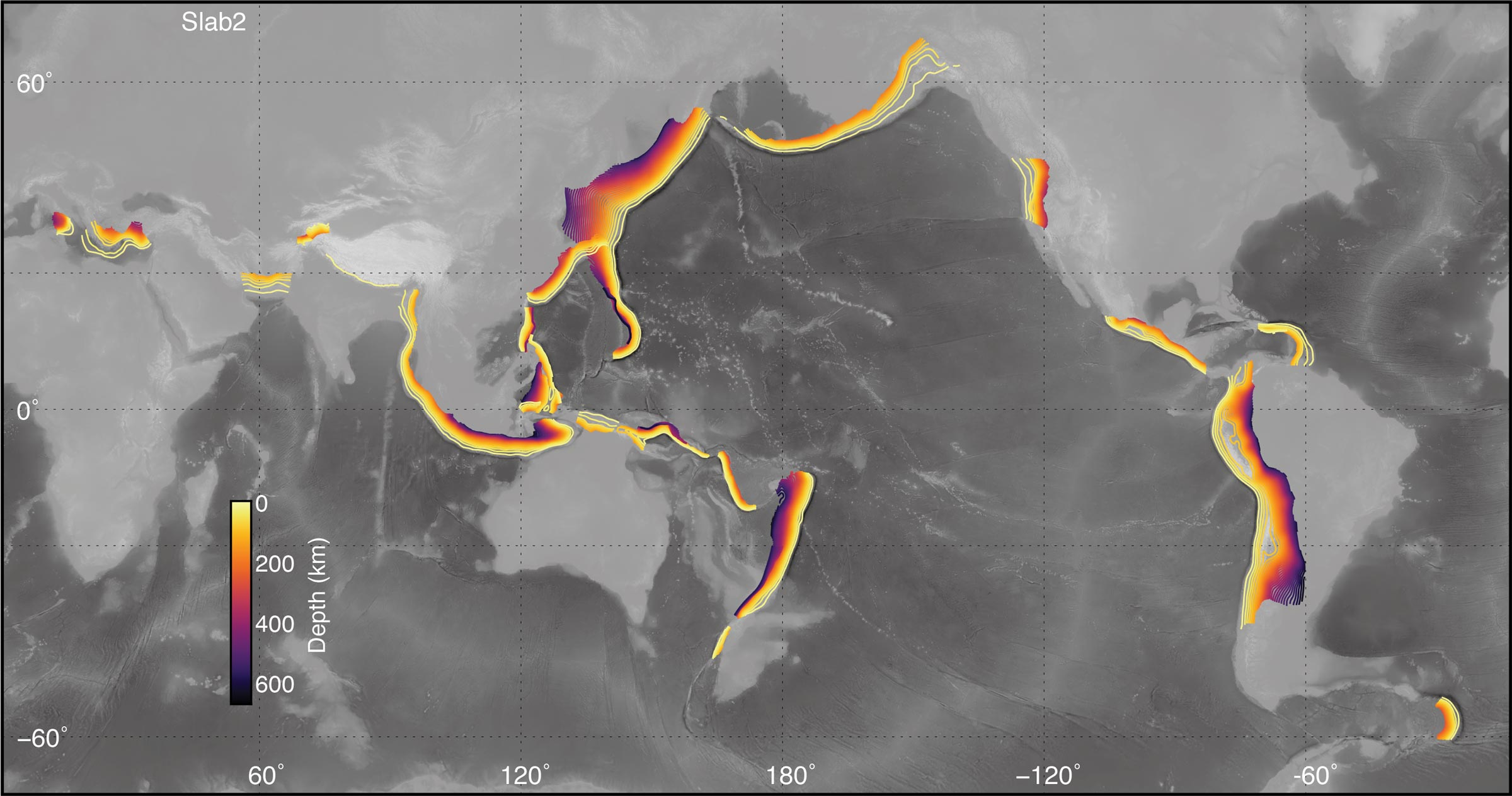 Map of subducted slabs, contoured by depth, for most active subduction zones around the globe. Map produced by Gavin P. Hayes (USGS).